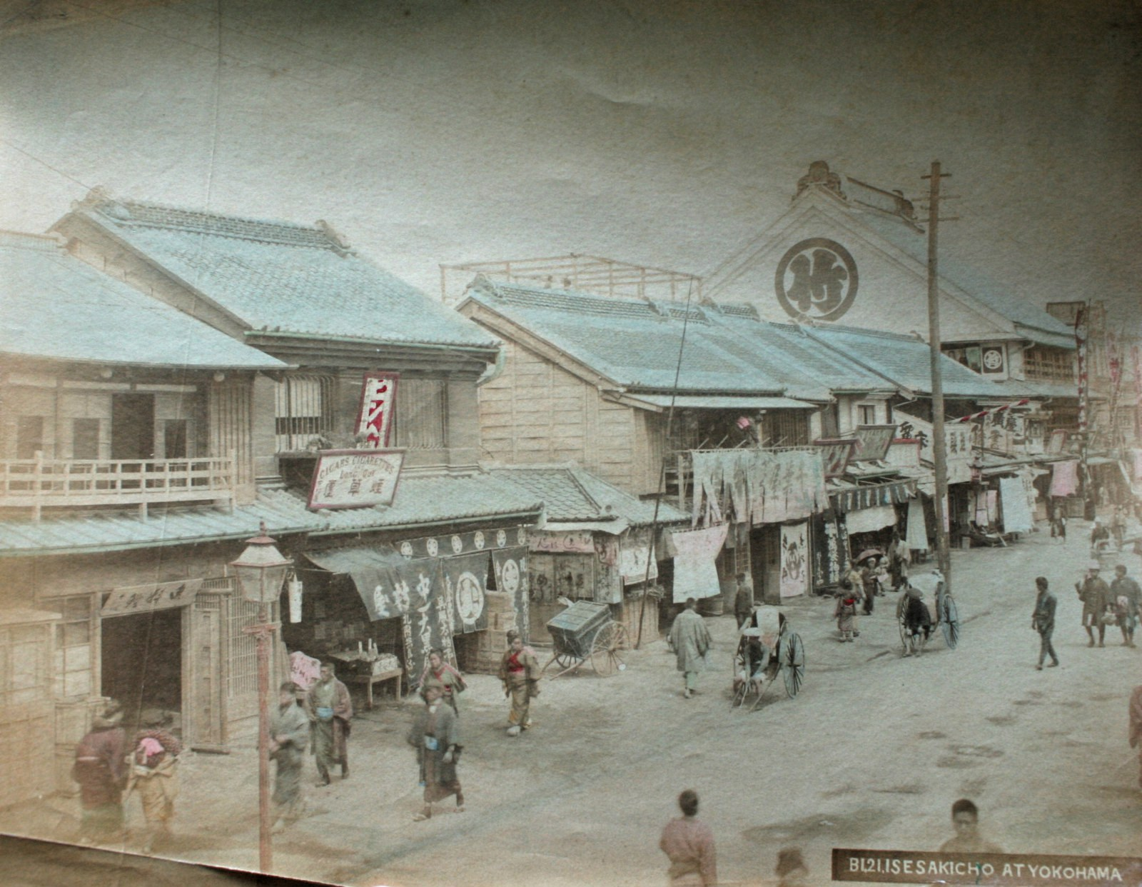 Hand colored albumen photograph of Isezaki-chō street scene, Yokohama, Japan